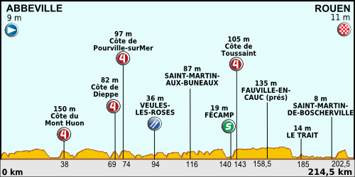 Profil of the 4th stage of the Tour de France 2012